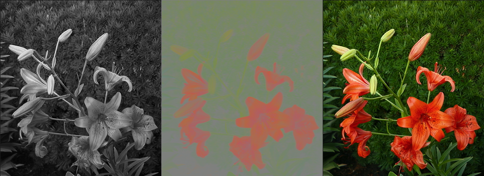 Orange flowers w/ green background, presented in three side by side images showing luminance only, chroma only, and full color